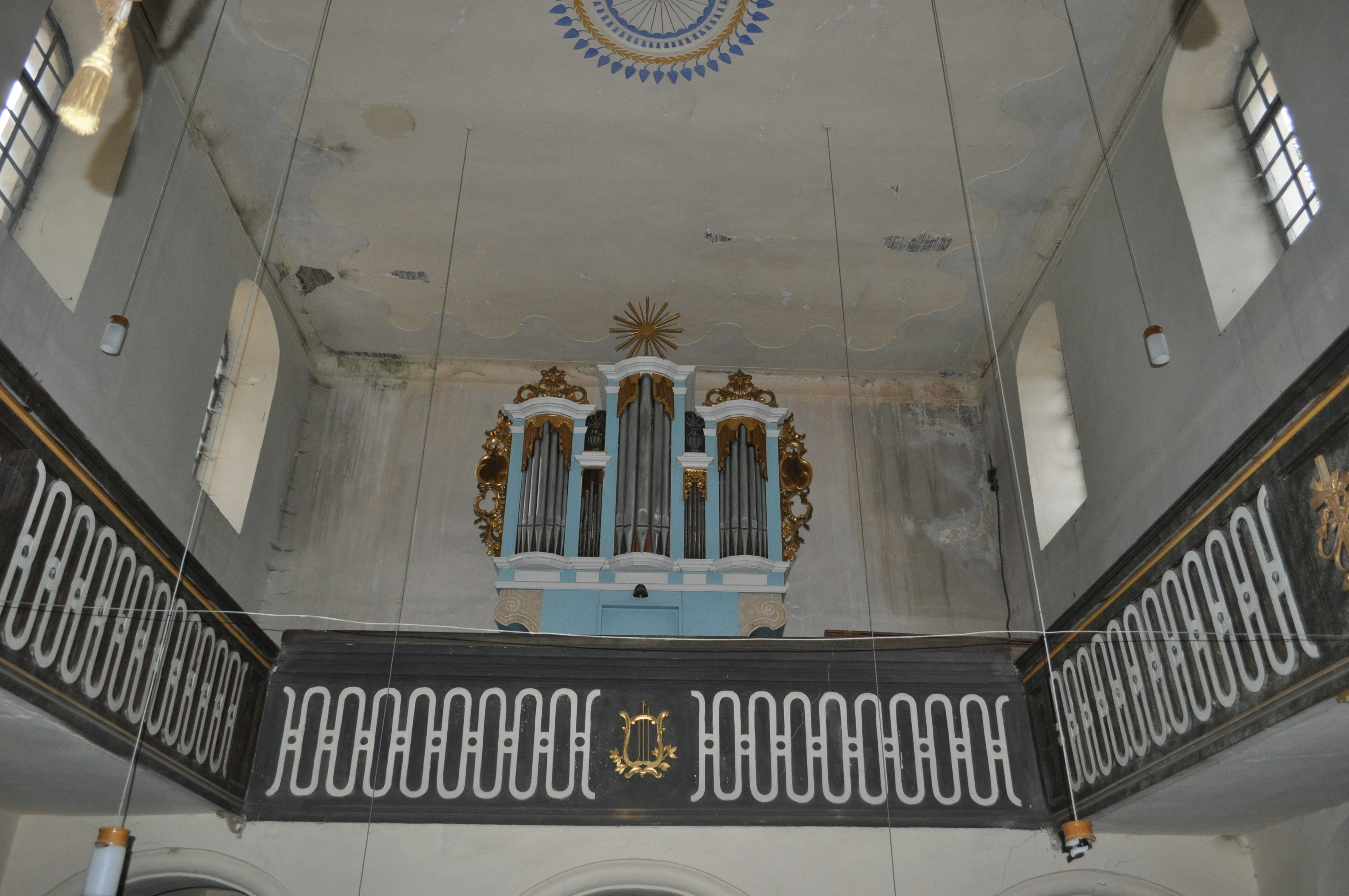 Saxon fortified church in Chirpăr, Sibiu county